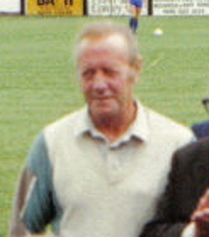 Picture of Alfie Biggs cropped from a larger image. The description of the full-size image: Rovers stars of the 1950's gather at Twerton Park on August 13th 1988 for Jackie Pitt's testimonial match, Bristol Rovers taking on FA cup holders Wimbledon. Rovers legend Jackie was one of the finest wing halves to wear the blue and white quarters. He played for Rovers between 1946 and 1958 and after retiring from playing became the club's groundsman for many years at both Eastville and Twerton Park. He sadly died in August 2004. This photo was taken before the game, with all time Rovers top goalscorer Geoff Bradford getting his hands on the FA cup. You can also see Doug Hillard and Alfie Biggs amongst others. The game itself ended in a 1-1 draw with both goals coming in the first half, Peter Cawley scored for Wimbledon, Devon White equalised for Rovers.